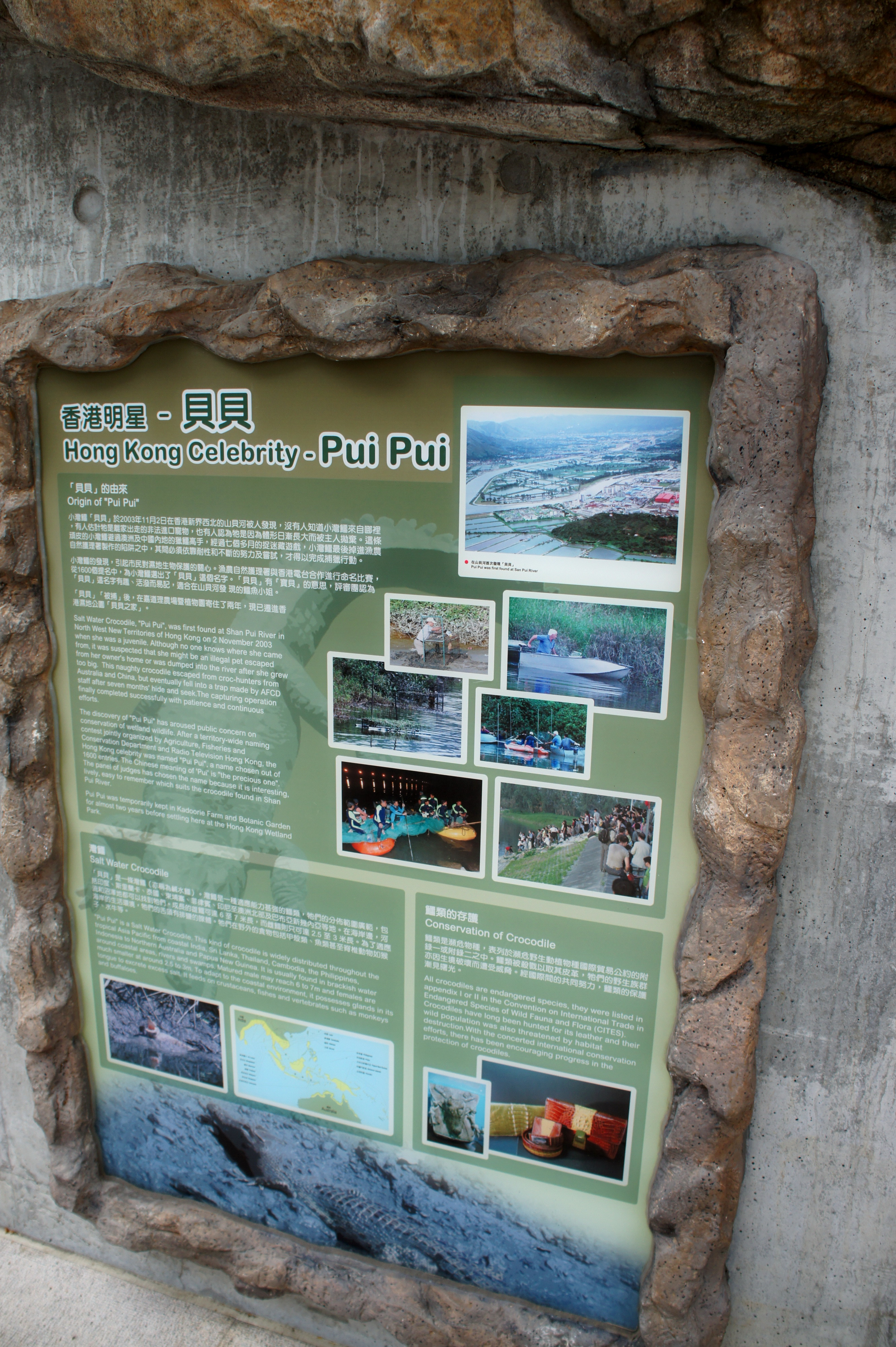 A display about the origin of Pui Pui at the Hong Kong Wetland Park.